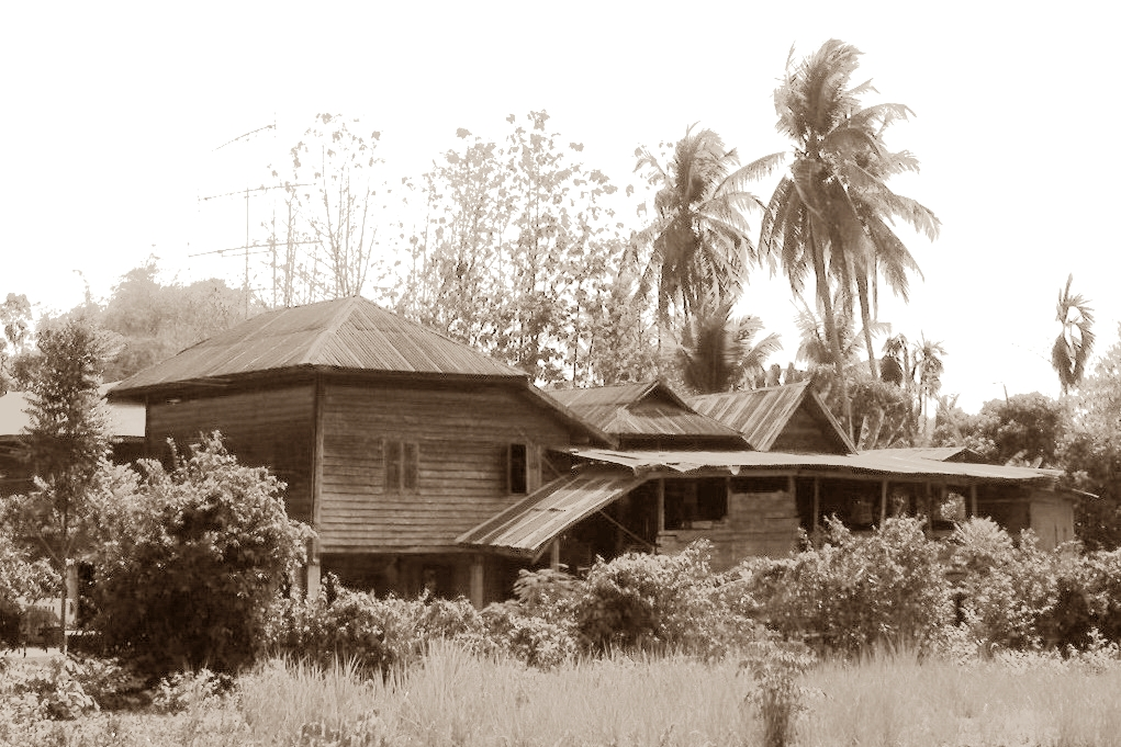 ancient house is Thai pattern of Thai construction of common houses without the gable in Ban Khung Taphao, Khung Taphao subdistrict, Mueang Uttaradit, Uttaradit Province, Thailand.